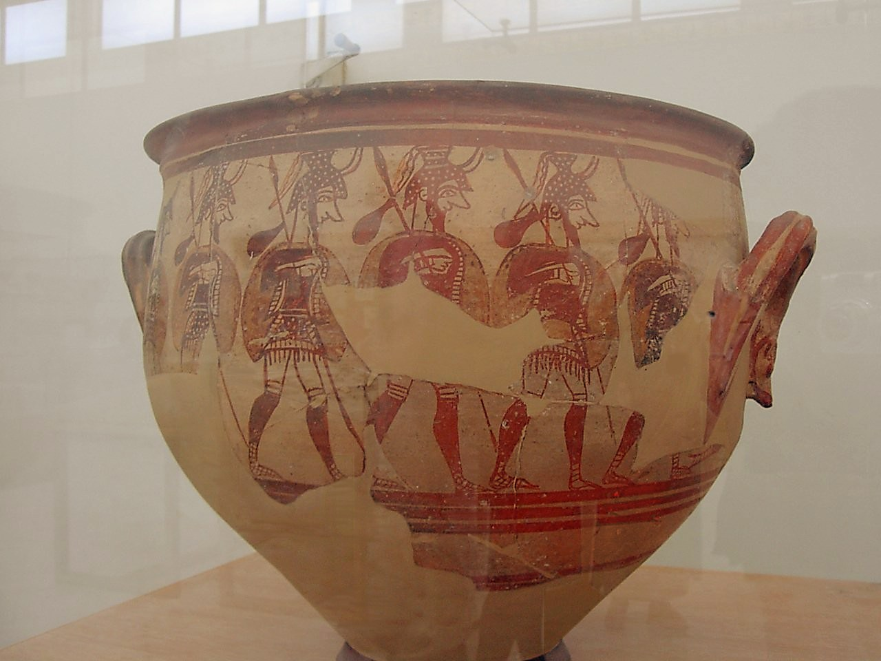 Fully armed warriors. Detail from the Warrior Vase, a Pictorial Style krater discovered by Schliemann at Mycenae, in a house on the acropolis. Height: 41 cm. Date: 1200-1100 BC. Athens, National Archaeological Museum. Photo by Adam Carr. Bibliography: HIGGINS, R. Minoan and Mycenaean Art. London: Thames and Hudson, 1981. PEDLEY, J.G. Greek Art and Archaeology. London: Lawrence King, 2nd ed., 1998.